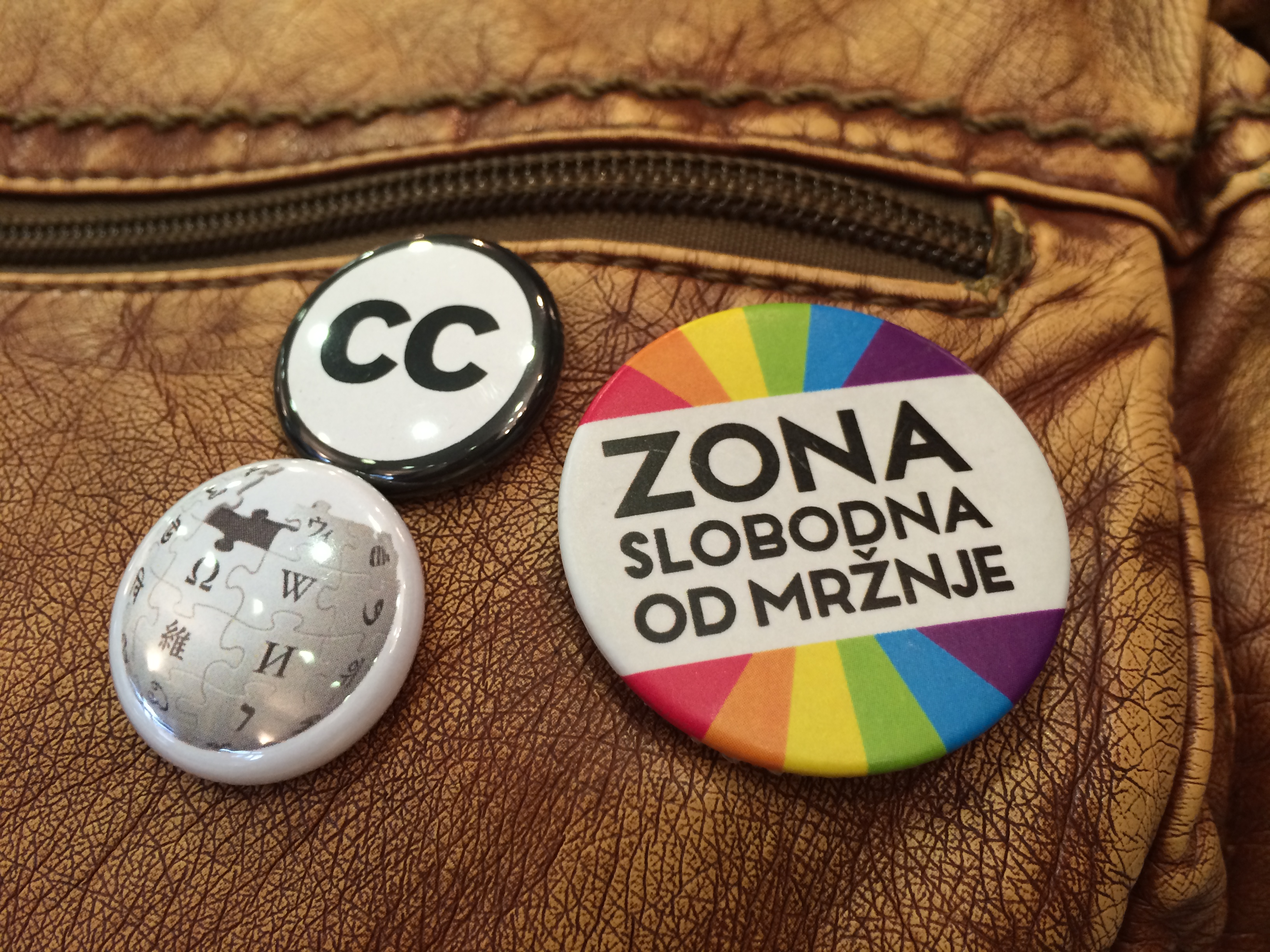 Wikipedia puzzle globe, Creative Commons CC logo, and "zona slobodna od mržnje" ("hate-free zone" in Serbian) buttons on a leather bag in London at Wikimania 2014.